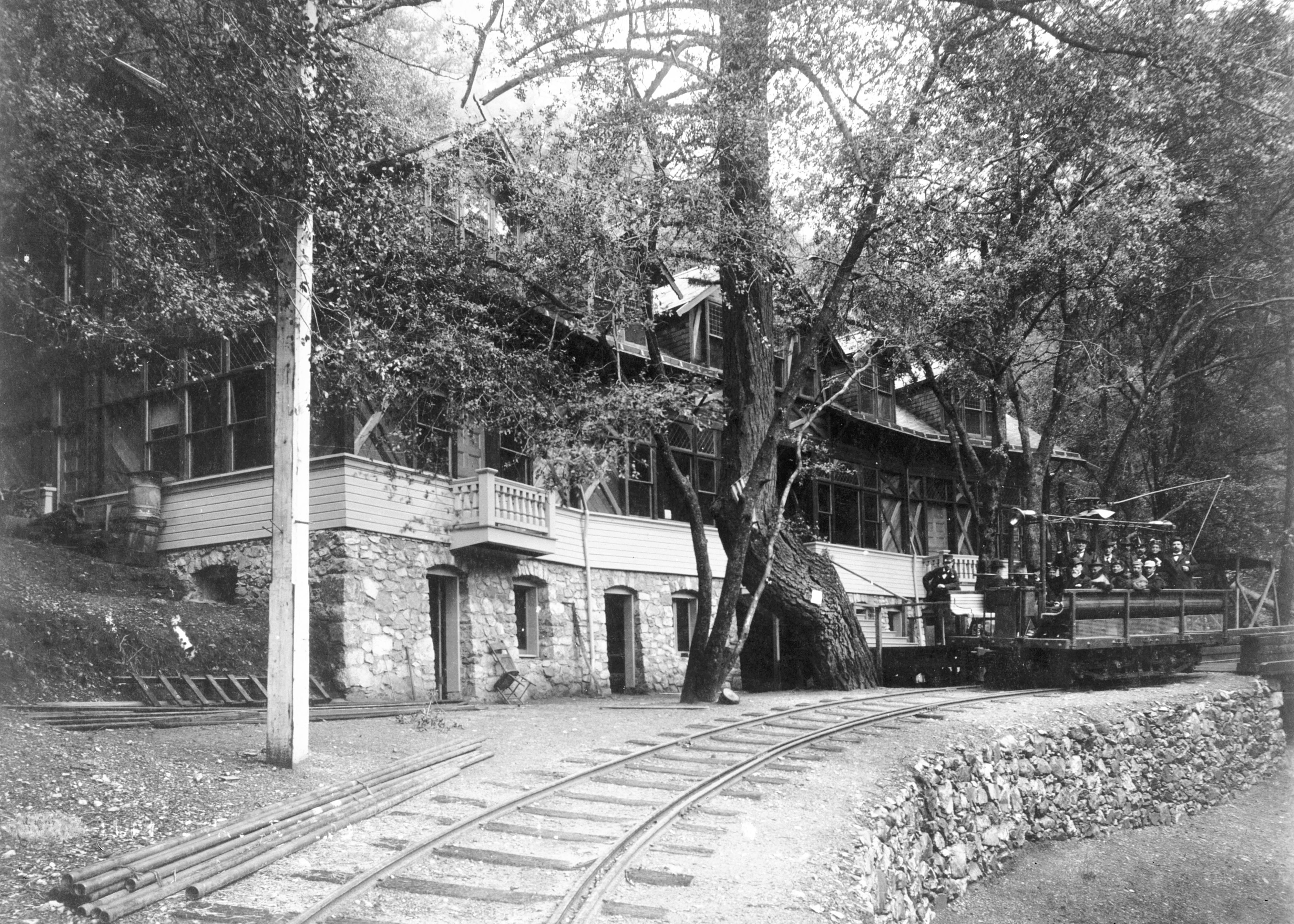 Photograph of a Mount Lowe Railway car in front of the Alpine Tavern on Mount Lowe, [s.d.]. The open electric railway car is at right and is crowded with passengers. Its tracks curve around and end up in the foreground at left. The large Alpine tavern is in the background at center. It is a three-story structure with wooden upper floors and a stone lower story. There are two small balconies on the second floor. A large wooden post is in the foreground at right, and piles of construction materials are on the ground nearby. The area around the tavern is full of tall trees, and there is a rock-lined ditch at right.